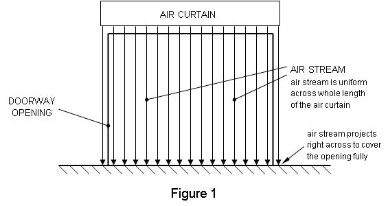 correct projection and uniformity of an operating air curtain